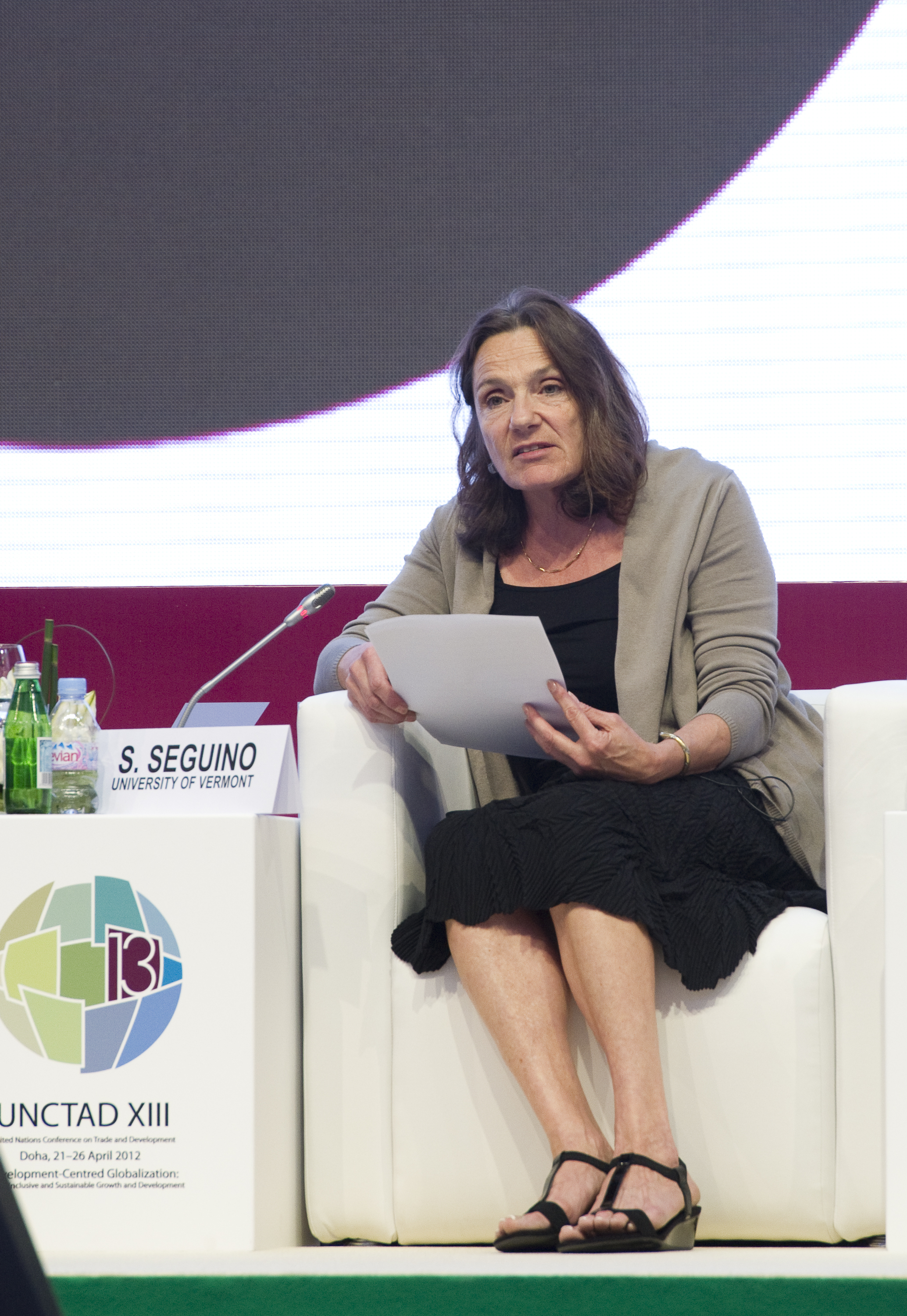 Professor Stephanie Seguino, Department of Economics, University of Vermont, United States of America at UNCTAD XIII High Level Event on Women in Development